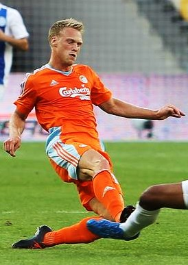 Andreas Cornelius 2014